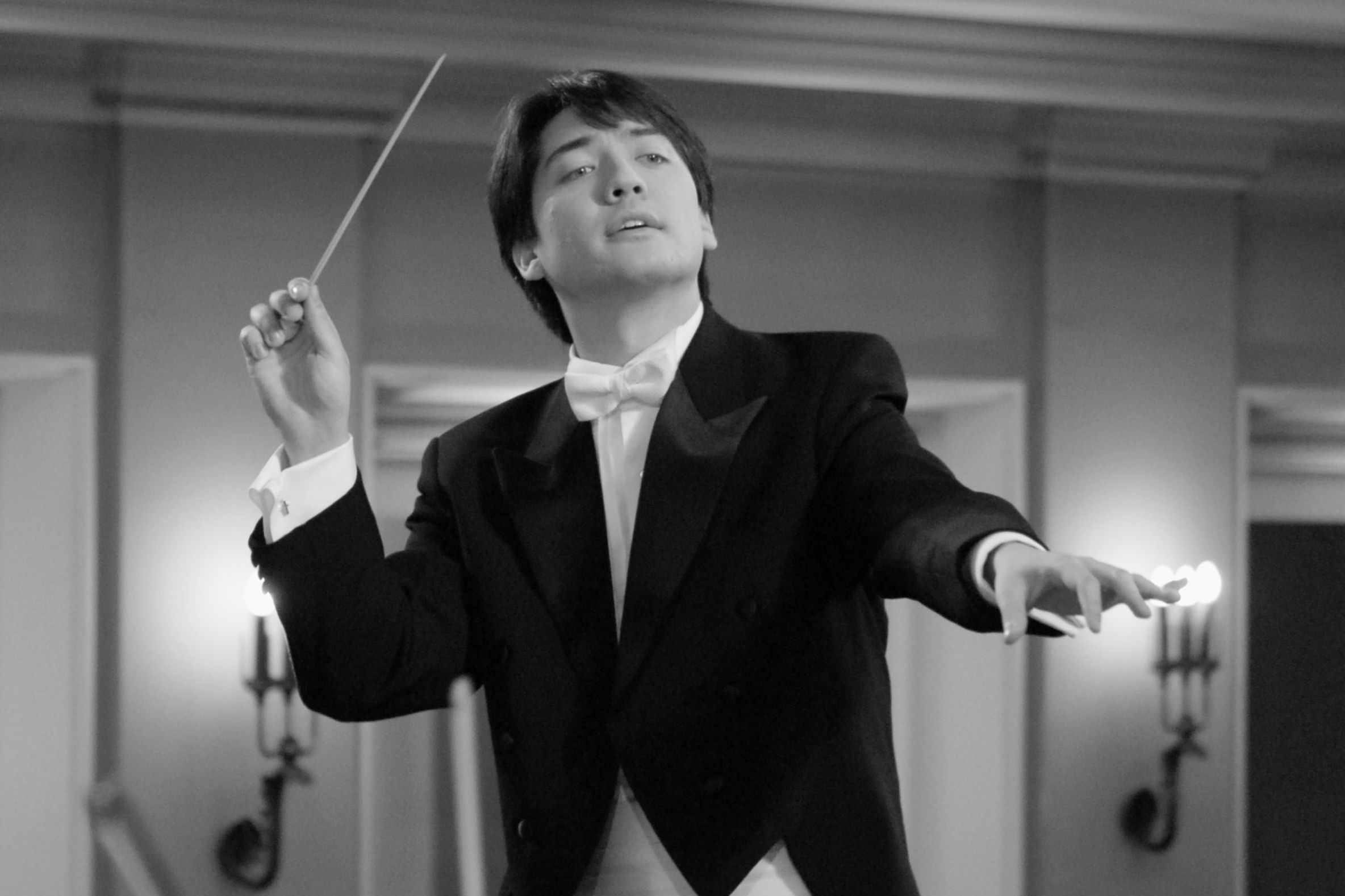 Eugene Tzigane 1st Prize during The 8th Grzegorz Fitelberg International Competition for Conductors in Katowice